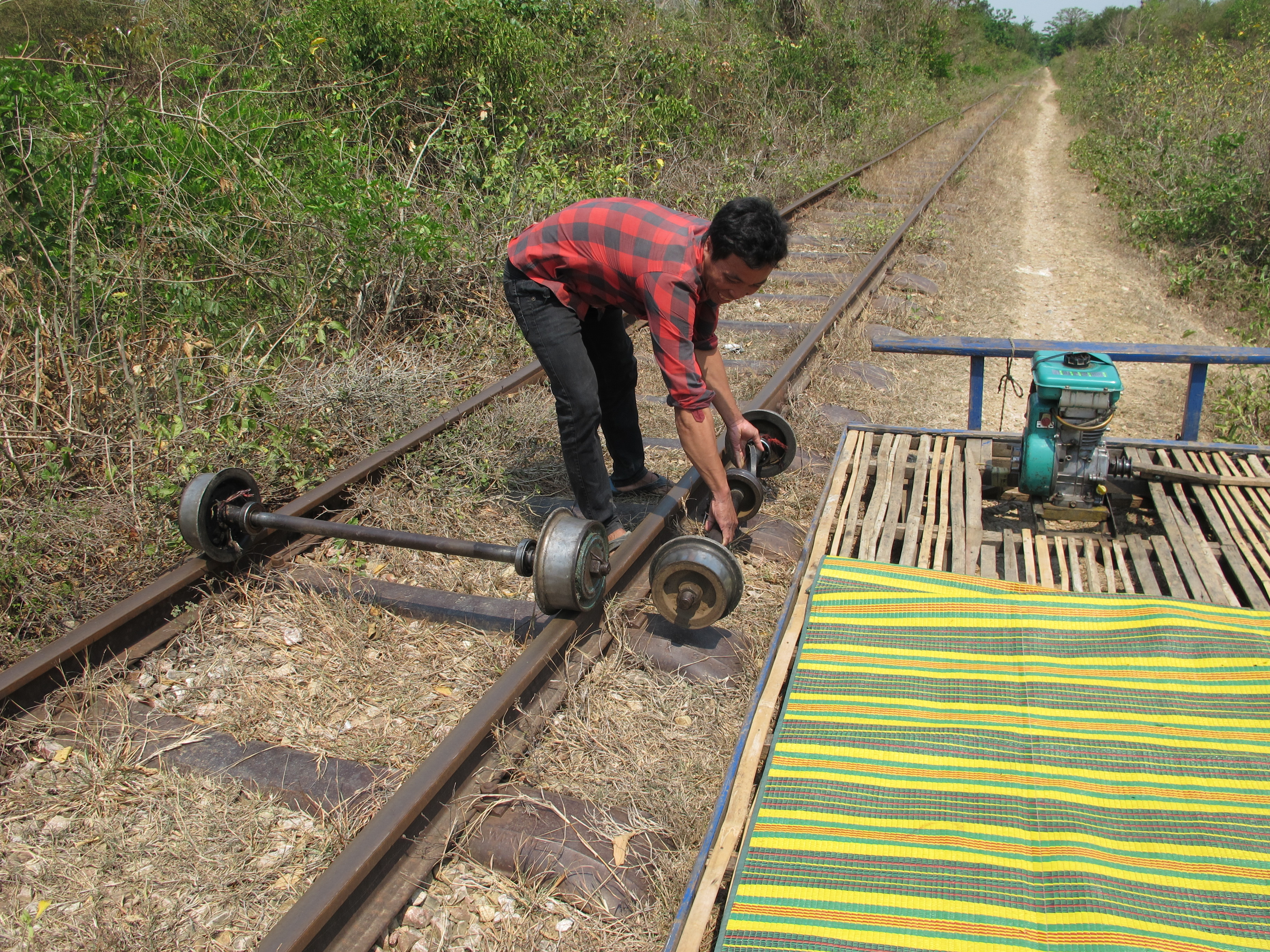 Disassembling a Bamboo train near Battambang, Cambodia